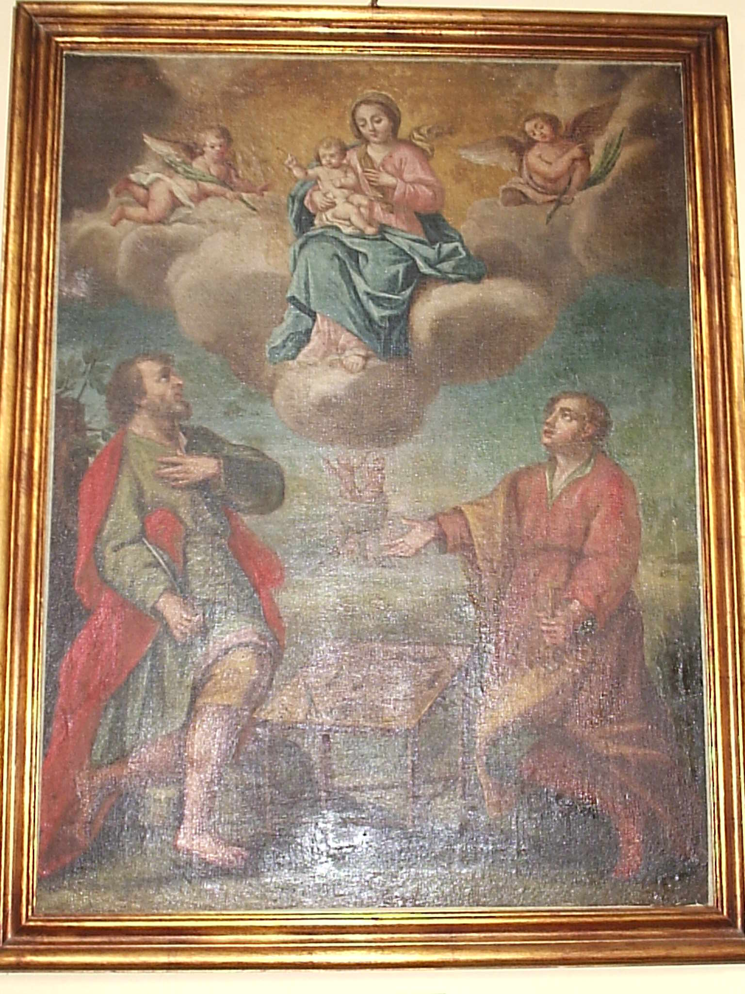 painting of St. Crispin and Crispinian